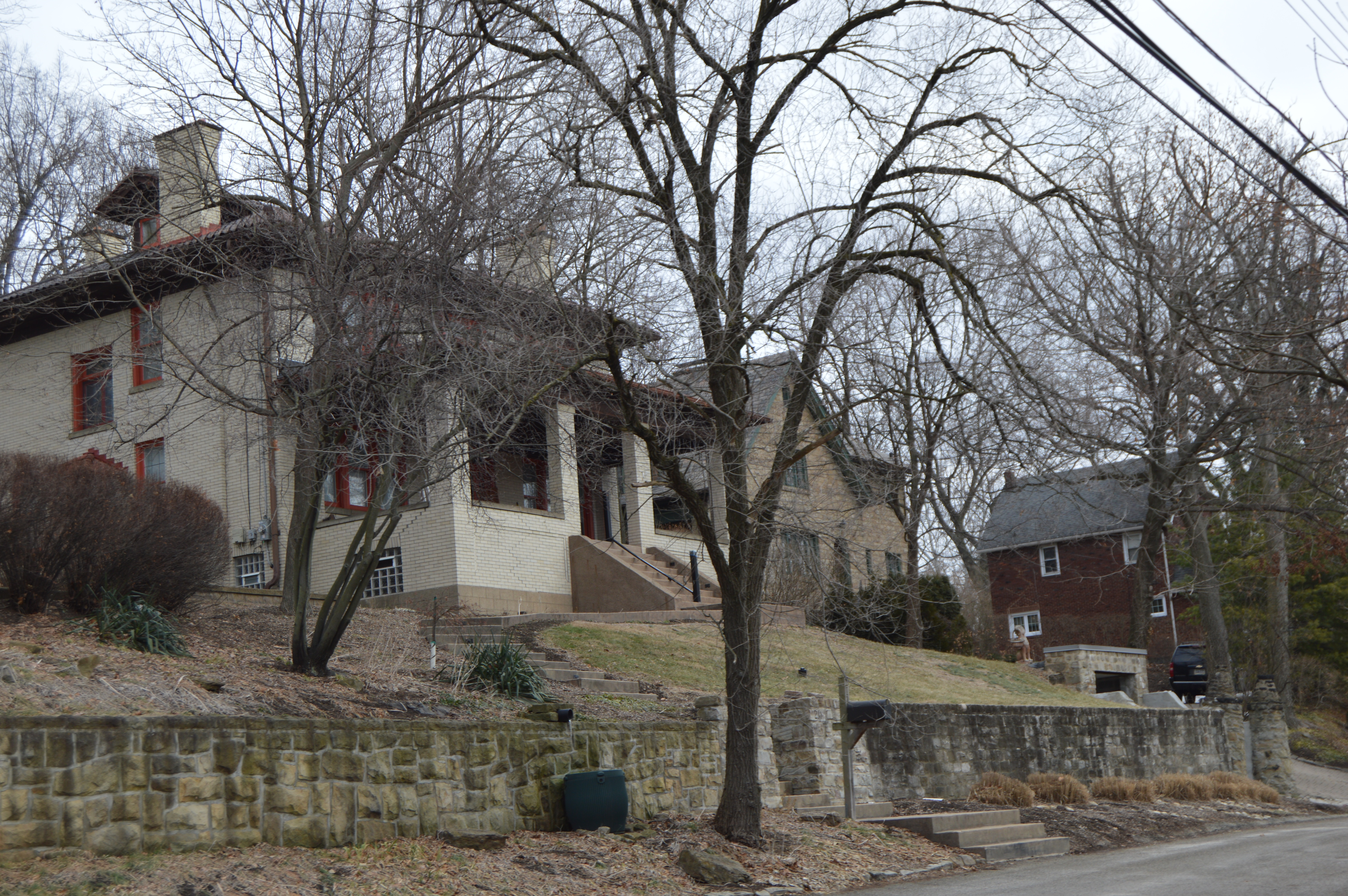 Houses on Highland Terrace in extreme southeastern O'Hara Township, Allegheny County, Pennsylvania, United States.